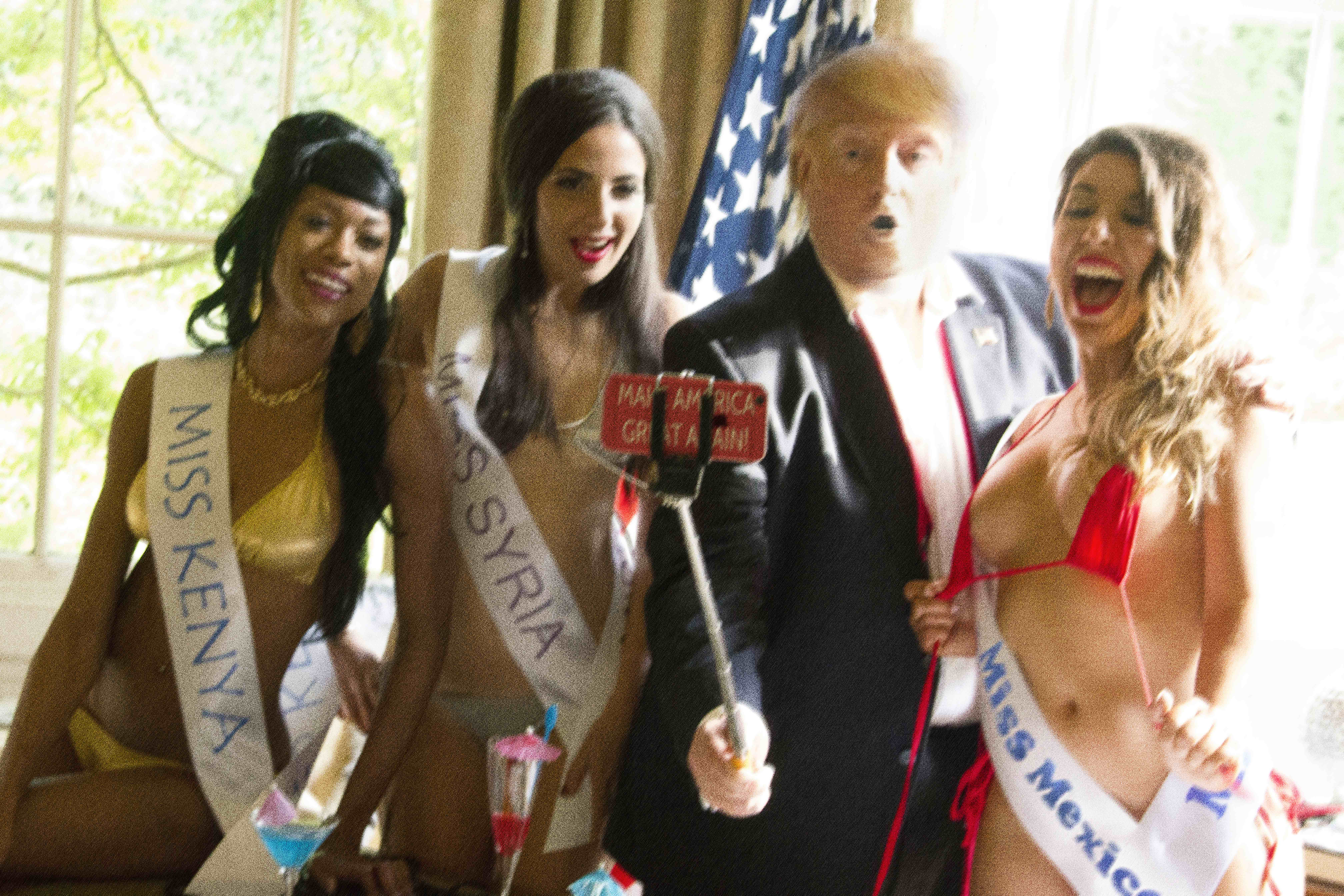 4 - TRUMP SELFIE NONBLUR IMG 6535 - work of photographer artist Alison Jackson with a lookalike of Donald Trump posing with models dressed as international beauty queens